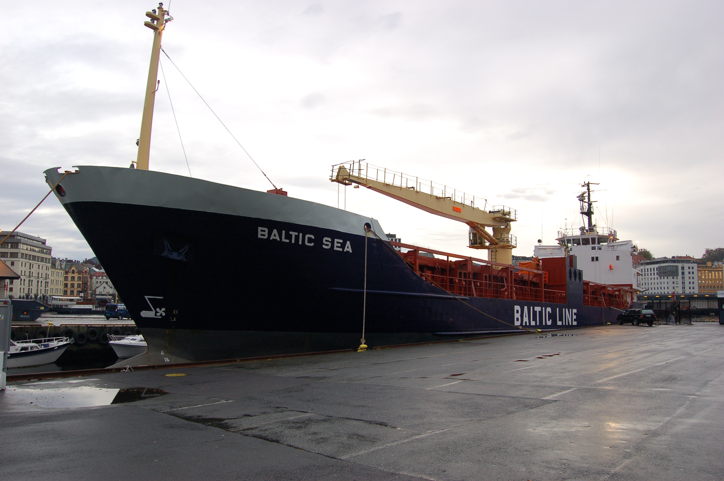 Baltic Line vessel Baltic Sea in Bergen, Norway IMO Number: 7605861 MMSI Number: 258705000 Callsign: LAVY2 Length: 81 m Beam: 13 m